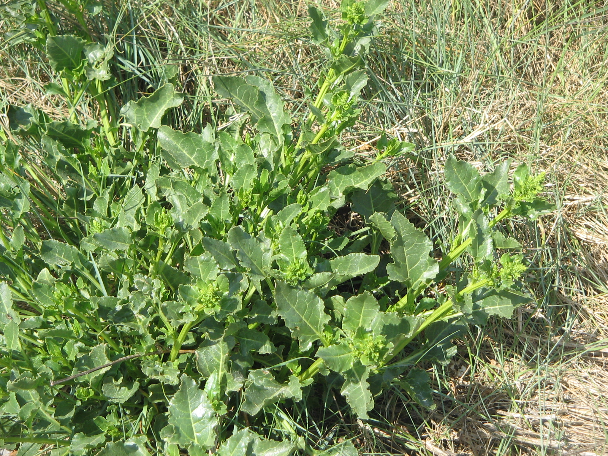 Beta vulgaris subsp. maritima